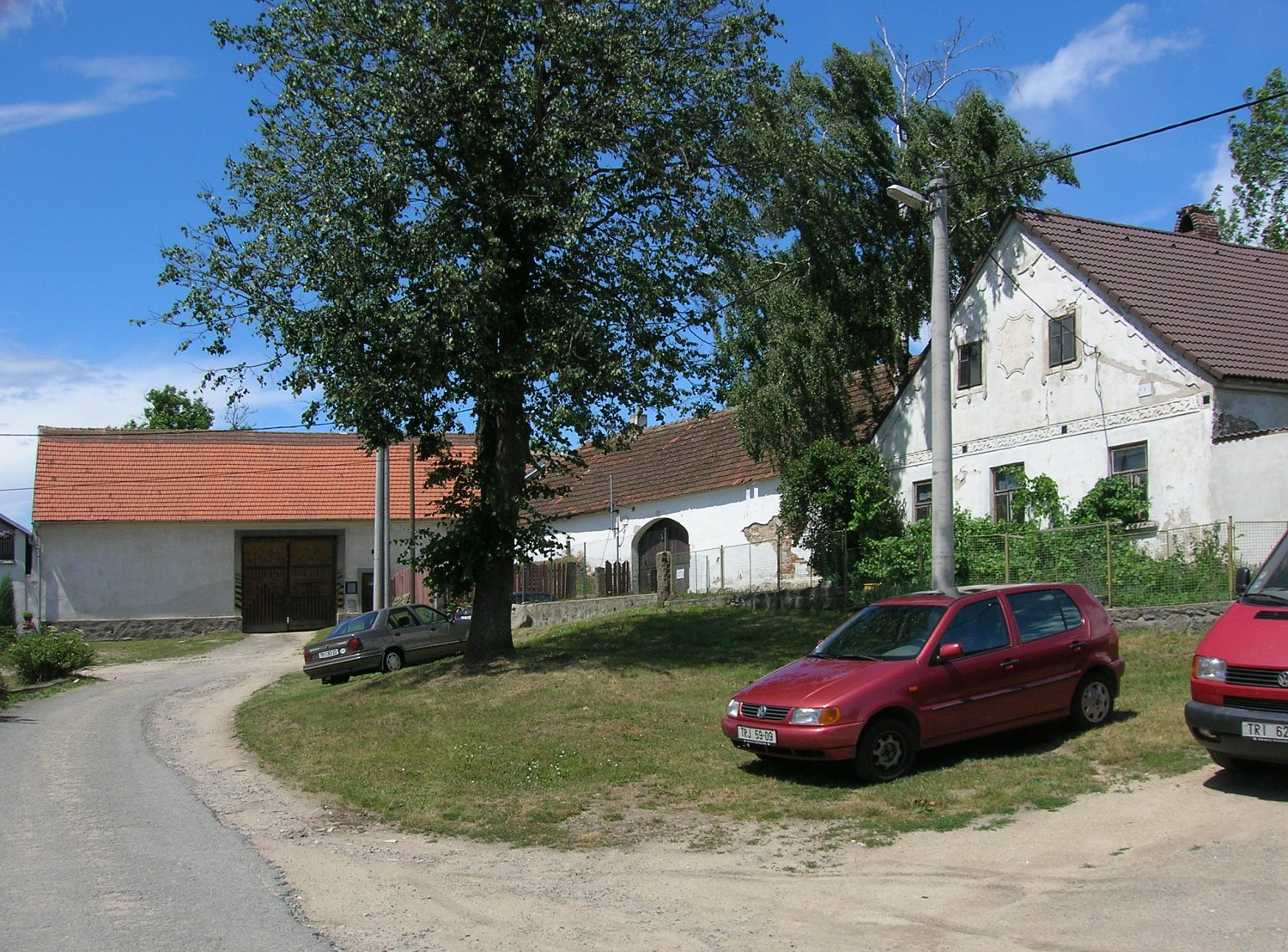 Třebíč-Pocoucov. An old farmhouse.